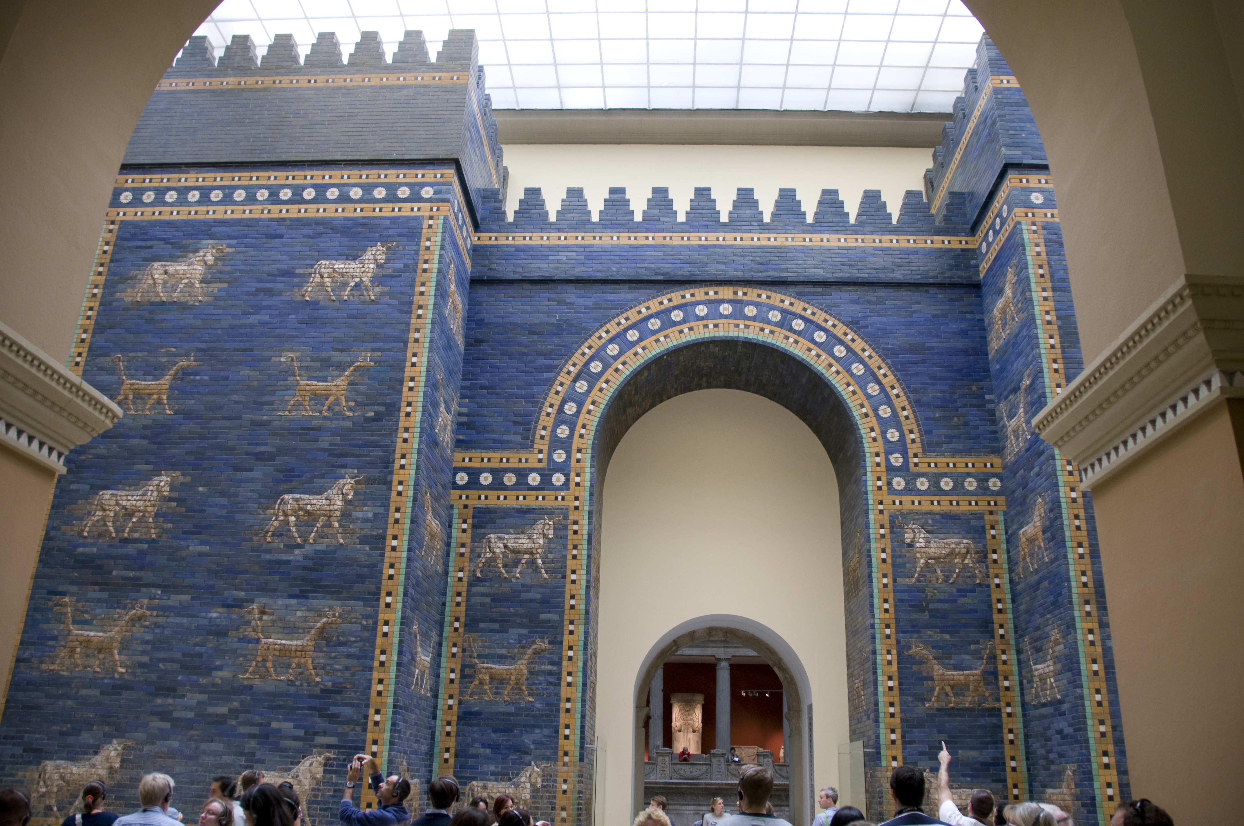 Ishtar Gate